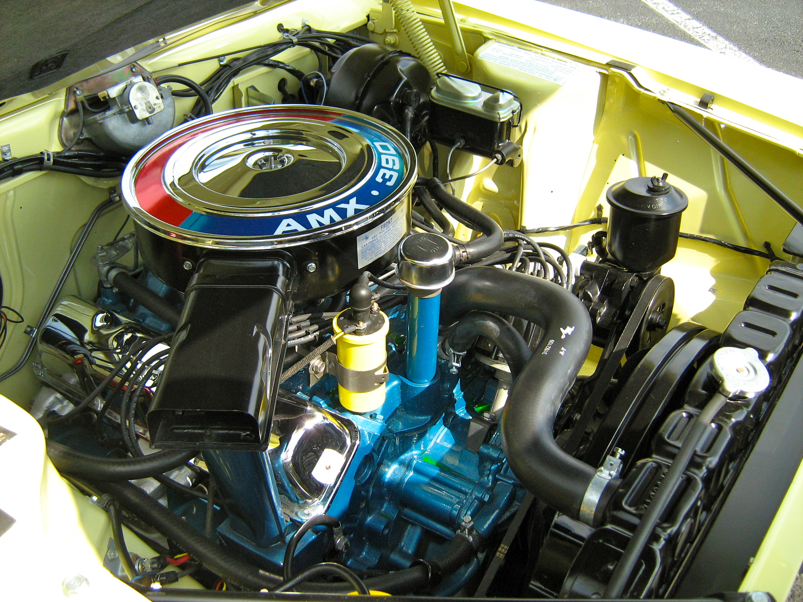 The "390 AMX" engine from right side in a 1968 AMX, a two-seat GT sport coupe made by American Motors Corporation (AMC). Finished in yellow with black stripes and all black interior. This car has the 390 "Go Package" that included the 390 cu in (6.4 L) 315 hp (235 kW) V8 engine, racing stripes, power front disk brakes, Twin-Grip rear differential, Magnum 500 chrome wheels, and many other high-performance components. This car has the optional automatic transmission, Rally Pac instruments, and dual side exhaust pipes.